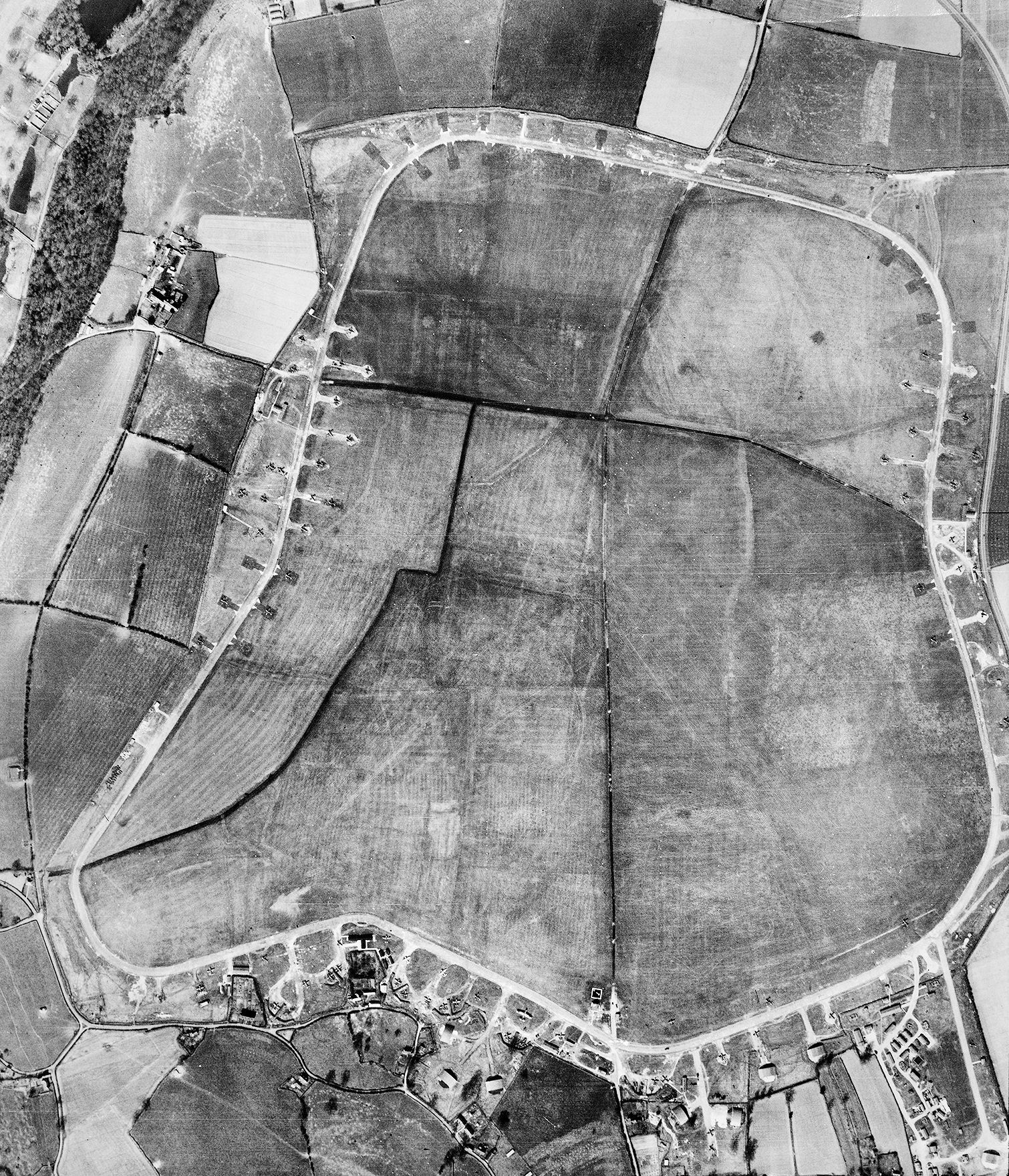 Aerial photograph of Zeals airfield the control tower, technical site and blister hangars are at the bottom (South), 24 March 1944. Photograph taken by No. 544 Squadron, sortie number RAF/NLA/80. English Heritage (RAF Photography).